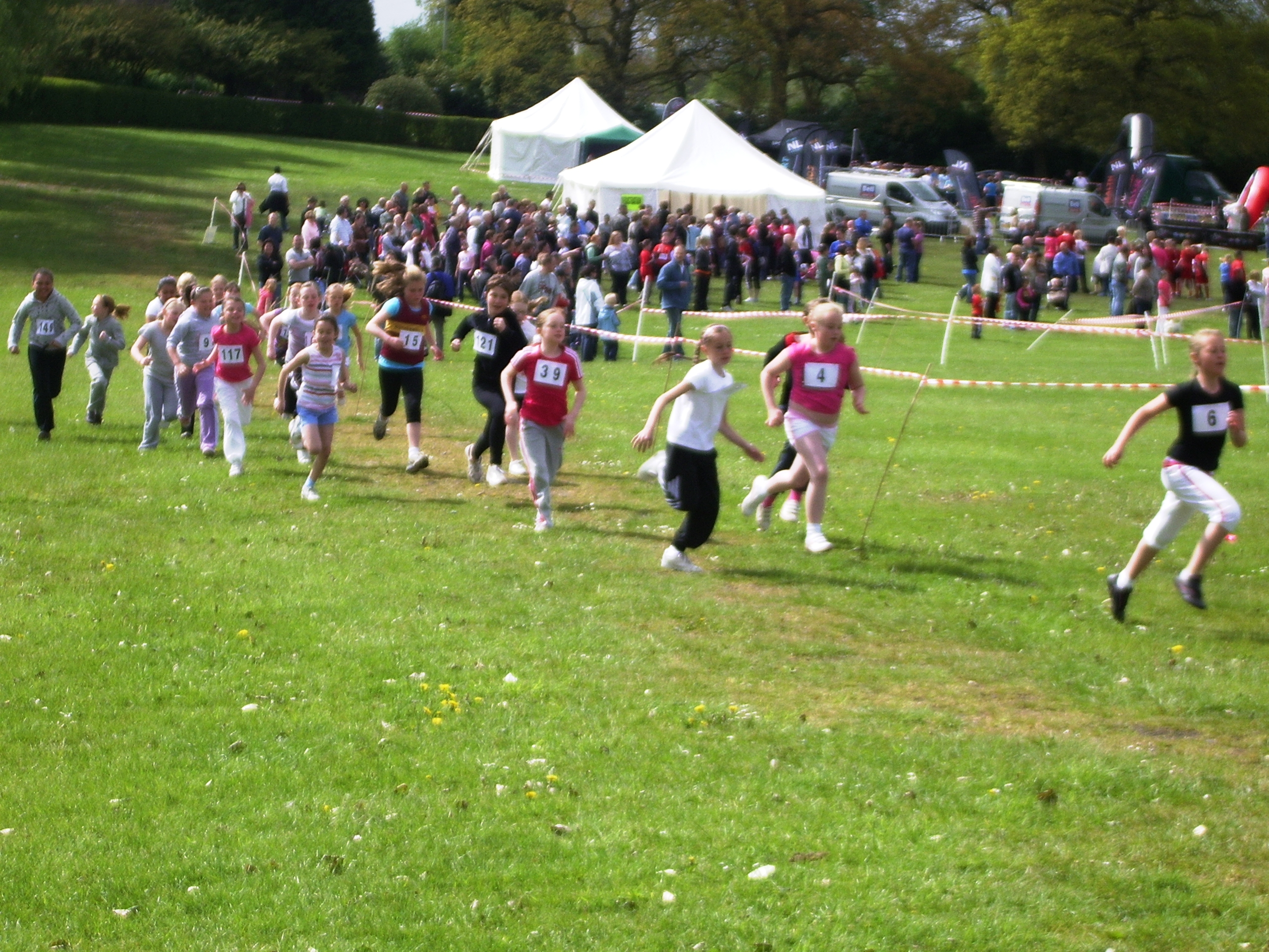 North Lanarkshire Council organised children's fun run in Drumpellier Country Park.